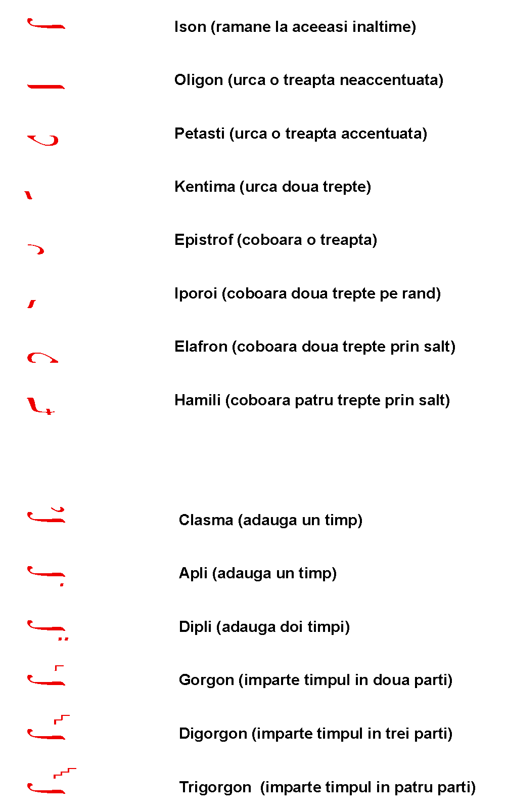 Byzantine Neumes 3.